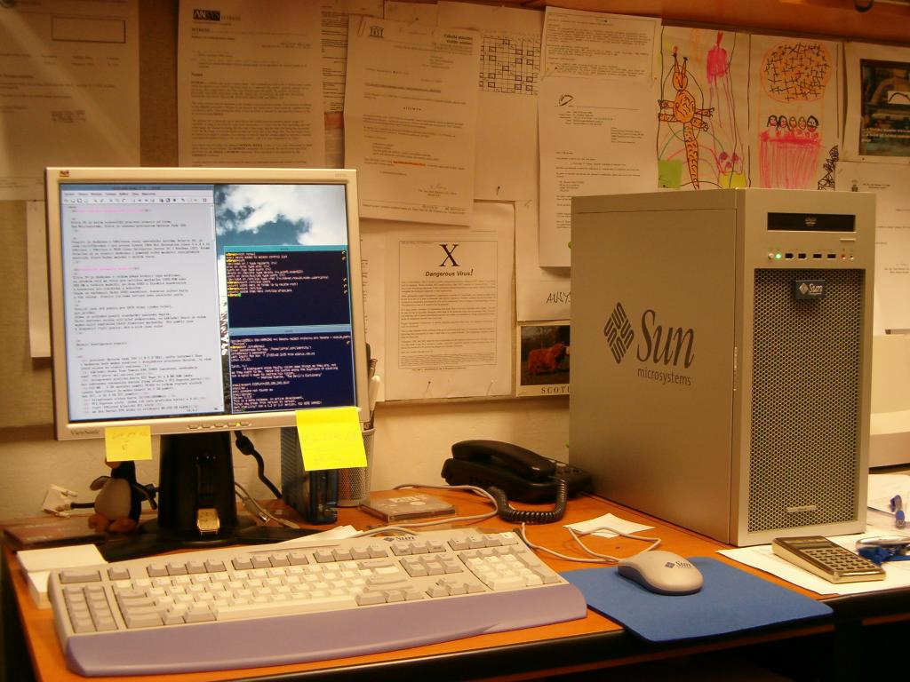 Sun Ultra 20 workstation, in 2005, with an AMD Opteron processor, running Solaris 10.